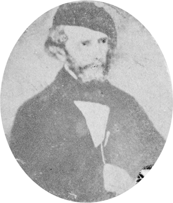 Anthony Cottrell (1806 – 1860), early Colonist of Victoria